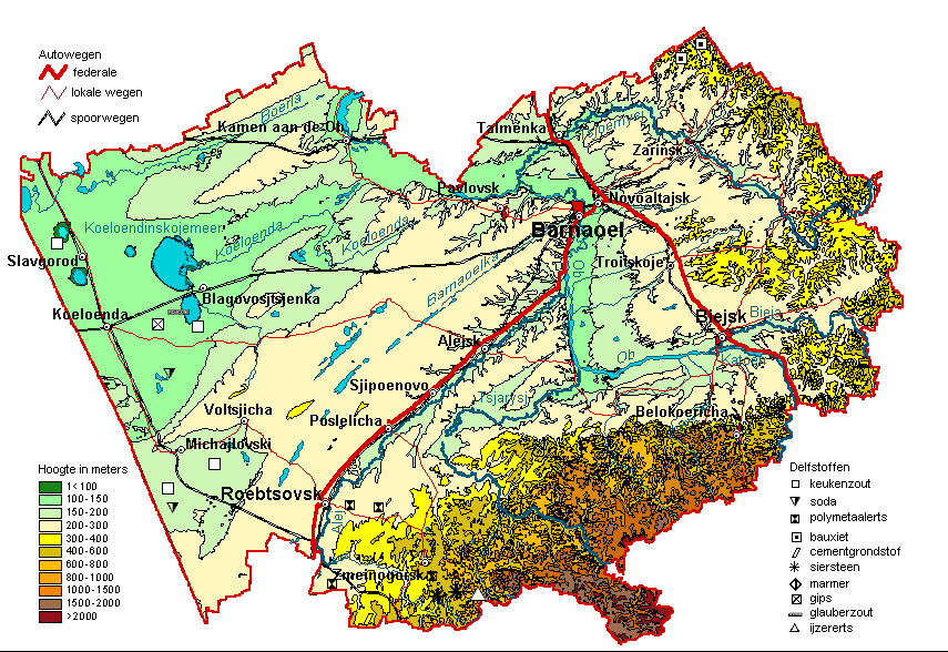 Dutch language version of Изображение:Altaikartafiz.gif